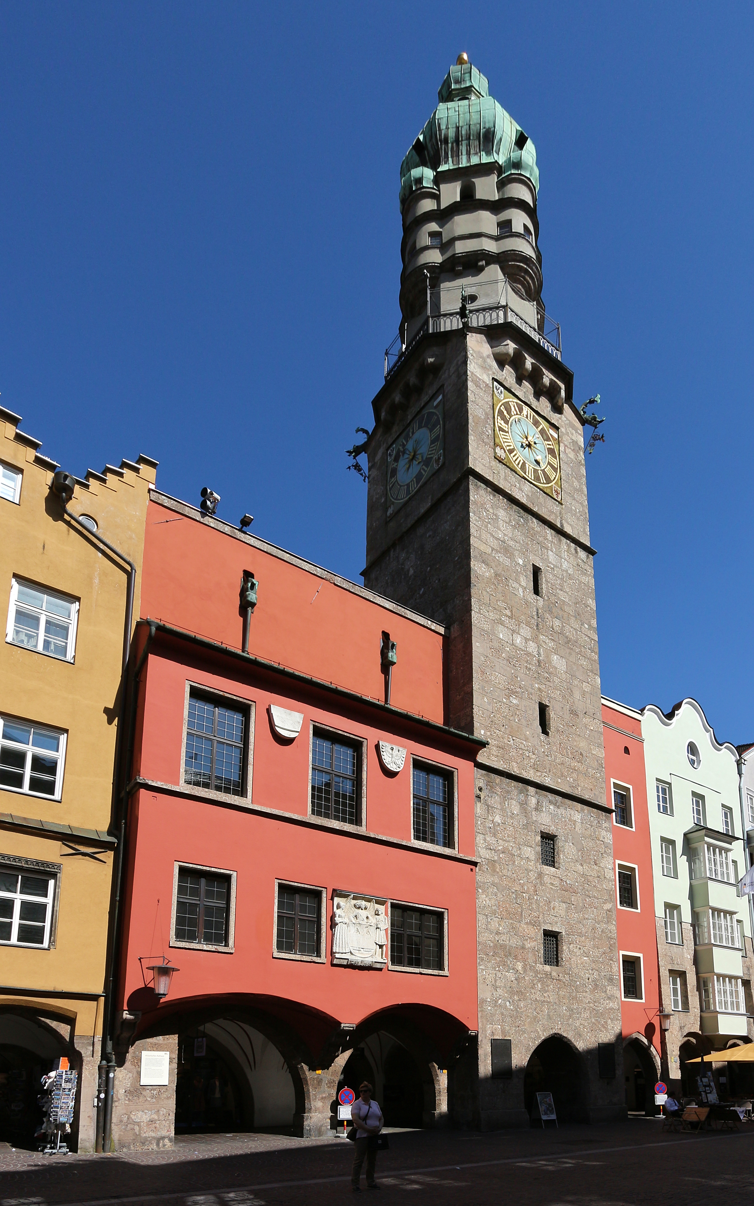 Herzog-Friedrich-Straße 21